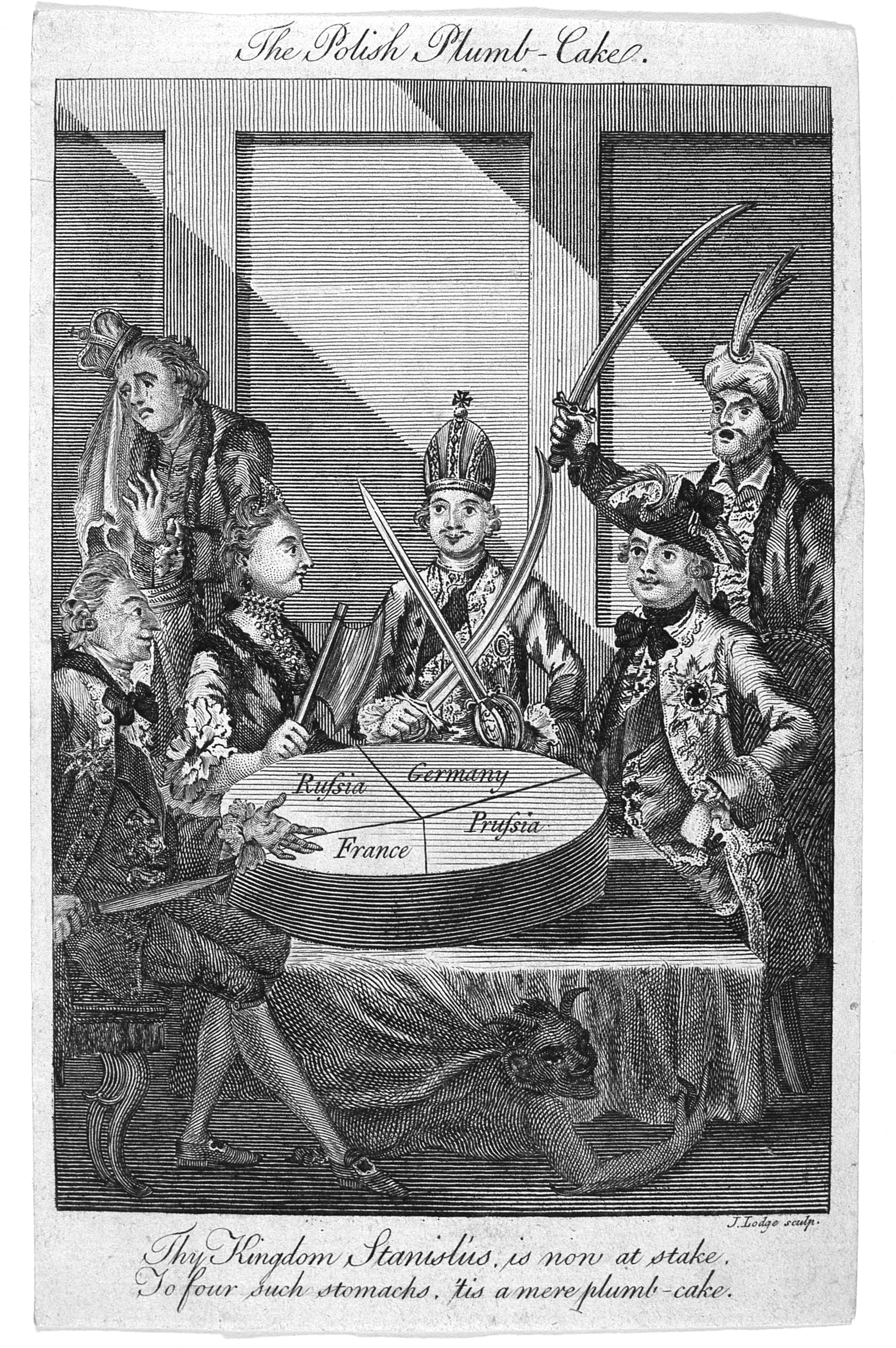 The Polish Plumb Cake